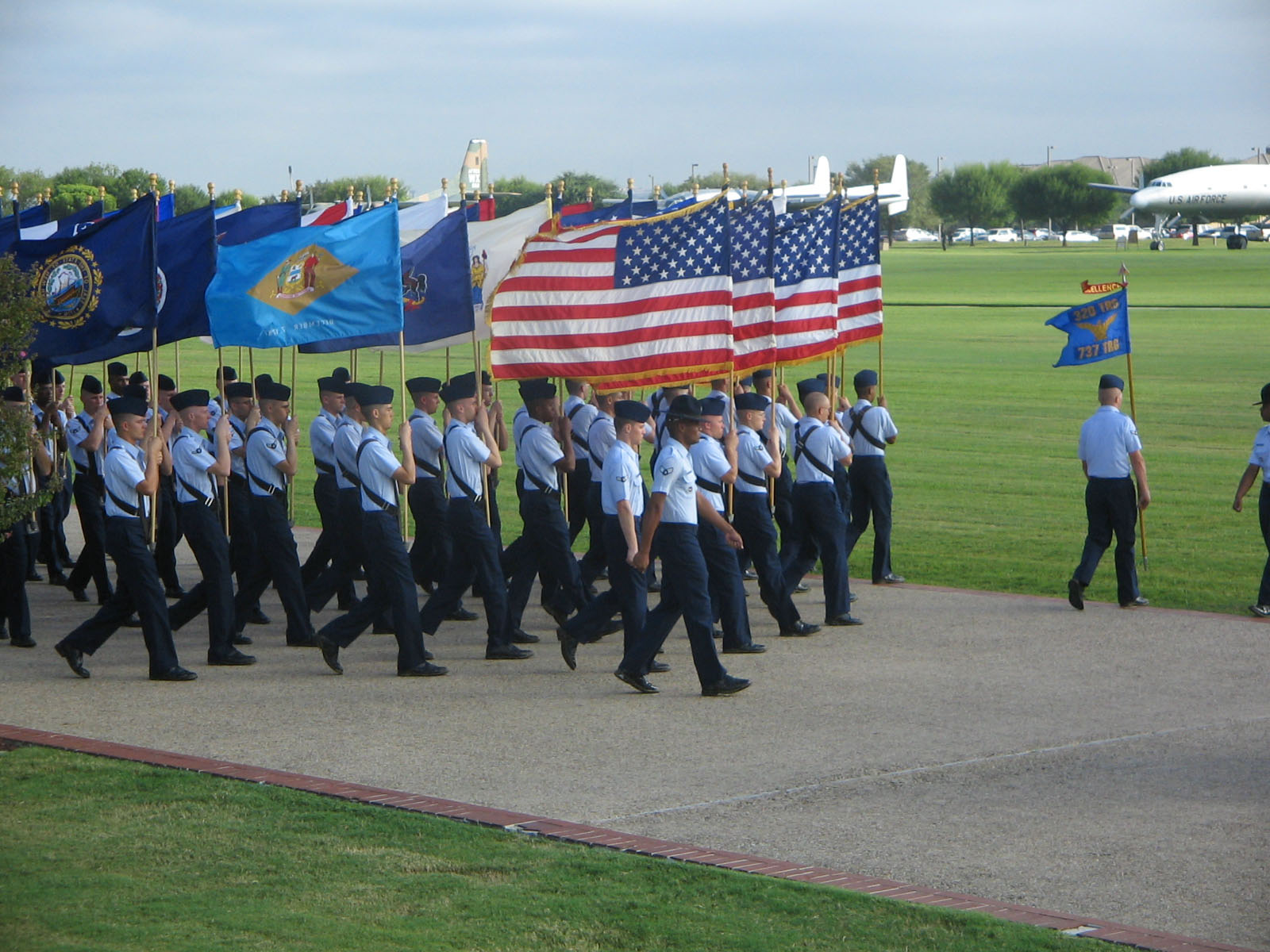 United States Air Force Basic Military Training graduation ceremony.